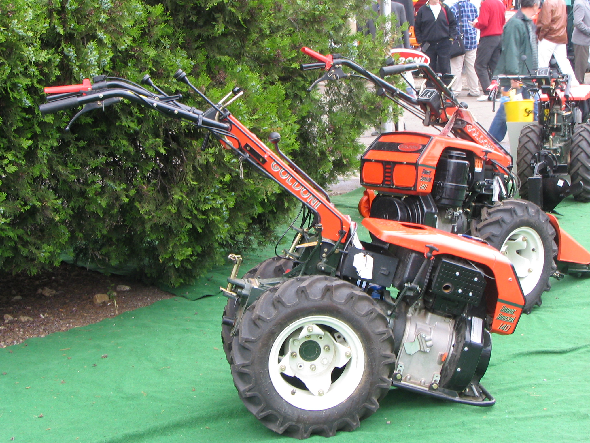 Single-axle tractor Agricultural fair Novi Sad (photo: Mihailo Grbić)